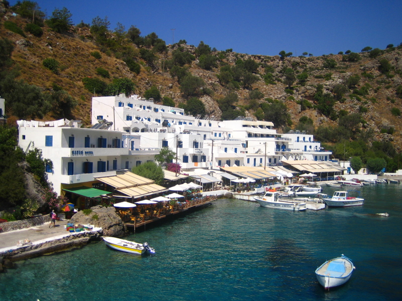 Harbour in Loutro, southern Crete, Greece